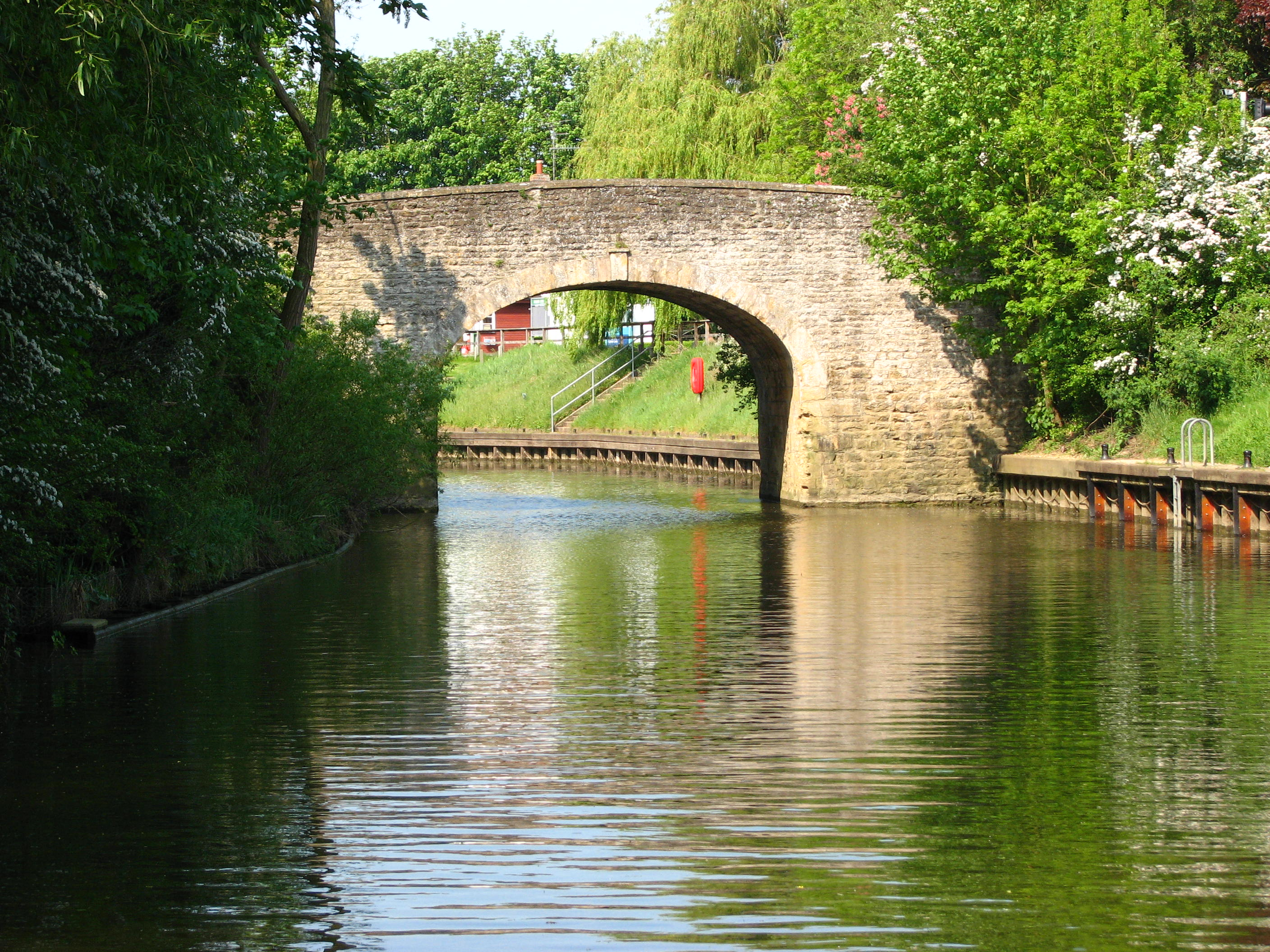 Culham Cut Bridge, Culham, Oxfordshire